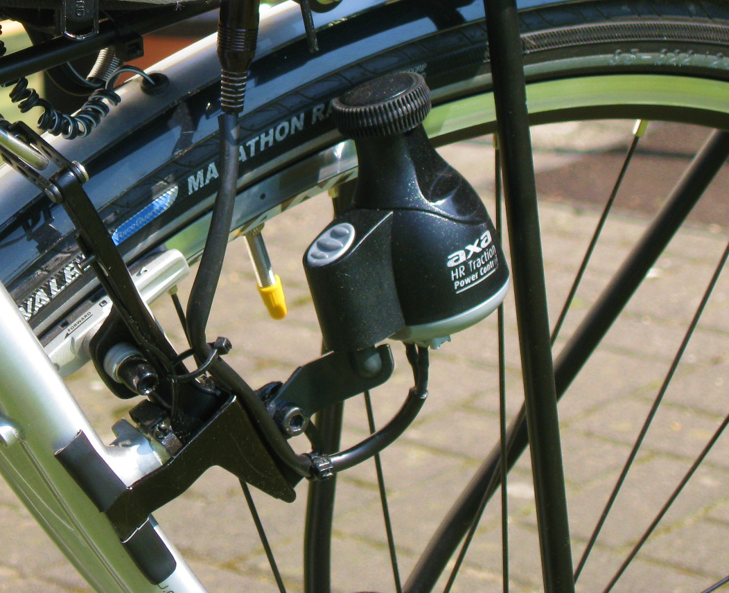 AXA HR Traction Power Control side running 6 Volt 3 Watt hinged type bottle dynamo mounted on a bicycle. It has a user replaceable large diameter knurled rubber roller and features a Zener diode to regulate output, to prevent damage to lights due to overvoltage.